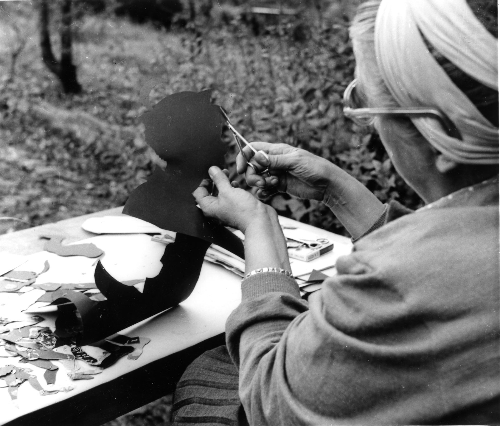 The German silhouette animationfilm artist Lotte Reiniger in London